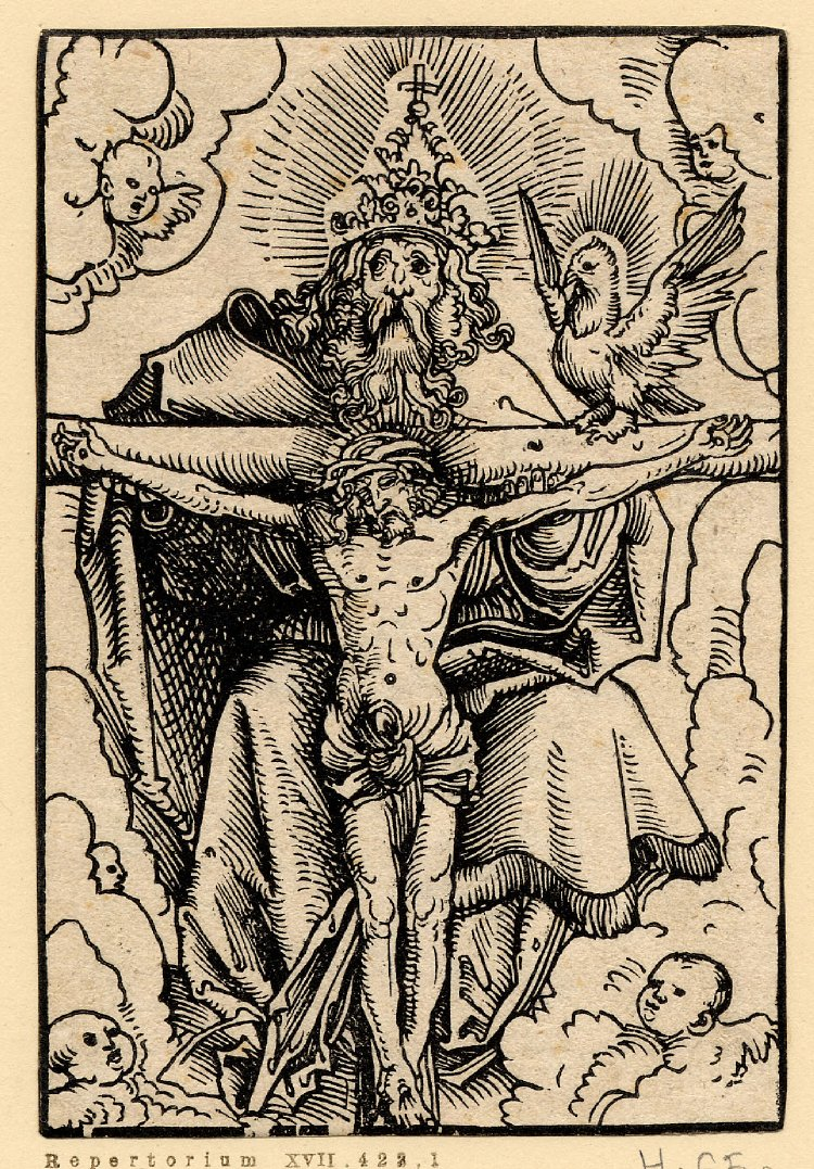 Woodcut in the British Museum by Lucas Cranach the Elder of the Holy Trinity, to illustrate a book by Adam von Fulda